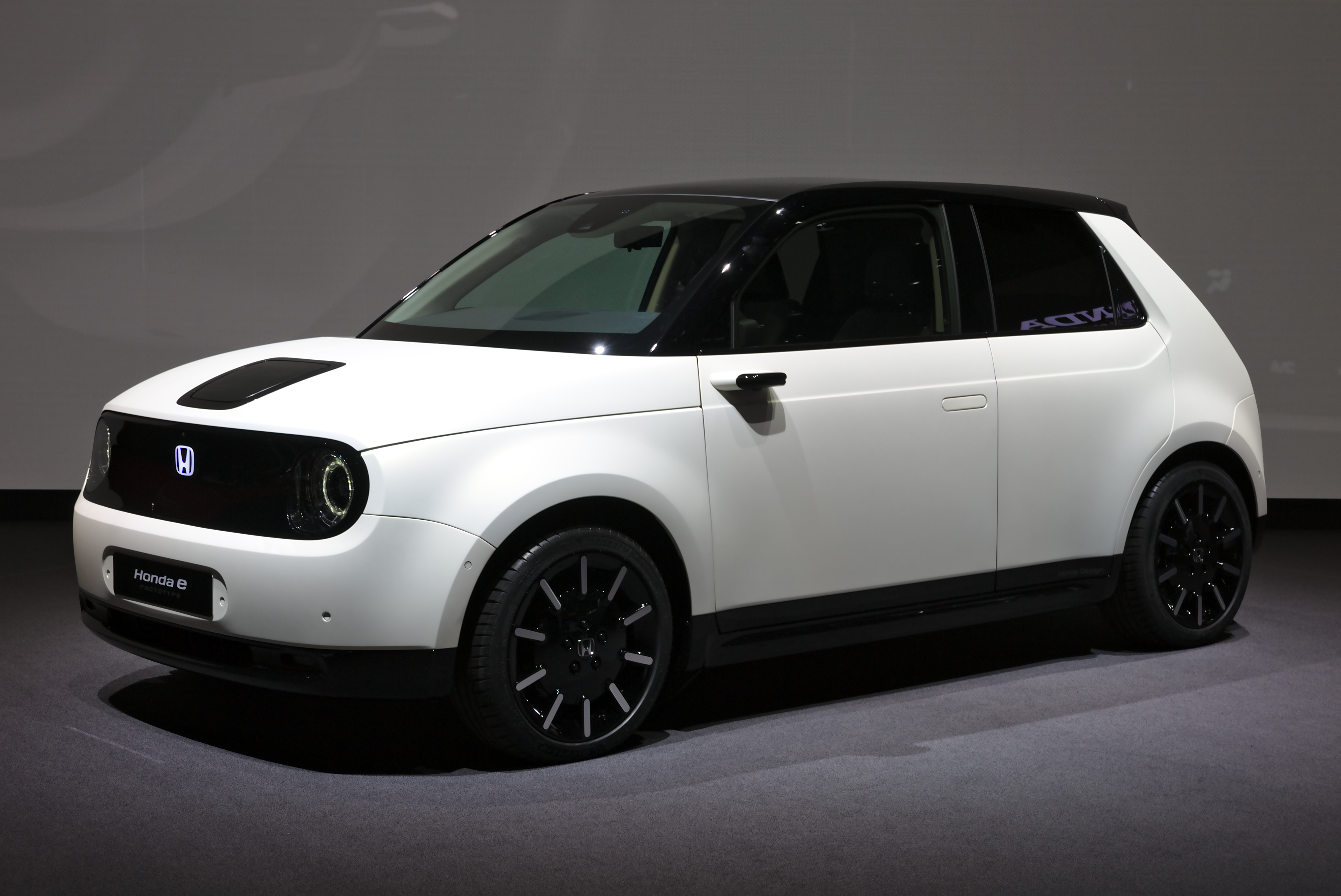 Honda e Prototype at Geneva Motor Show 2019